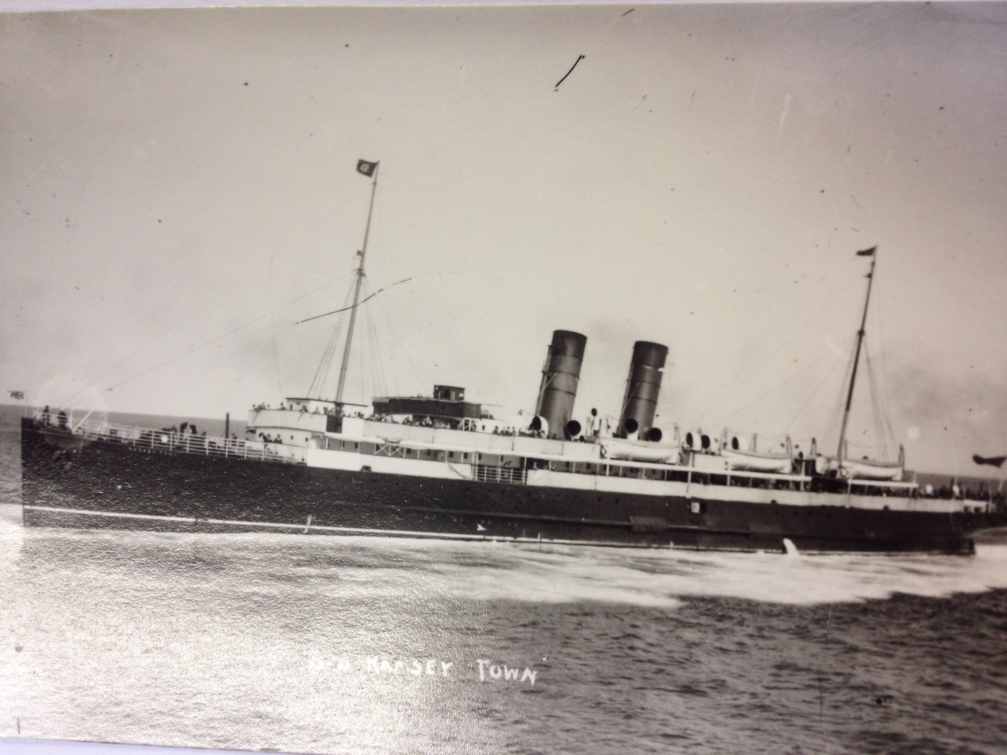 Isle of Man Steam Packet Company vessel Ramsey Town at sea.